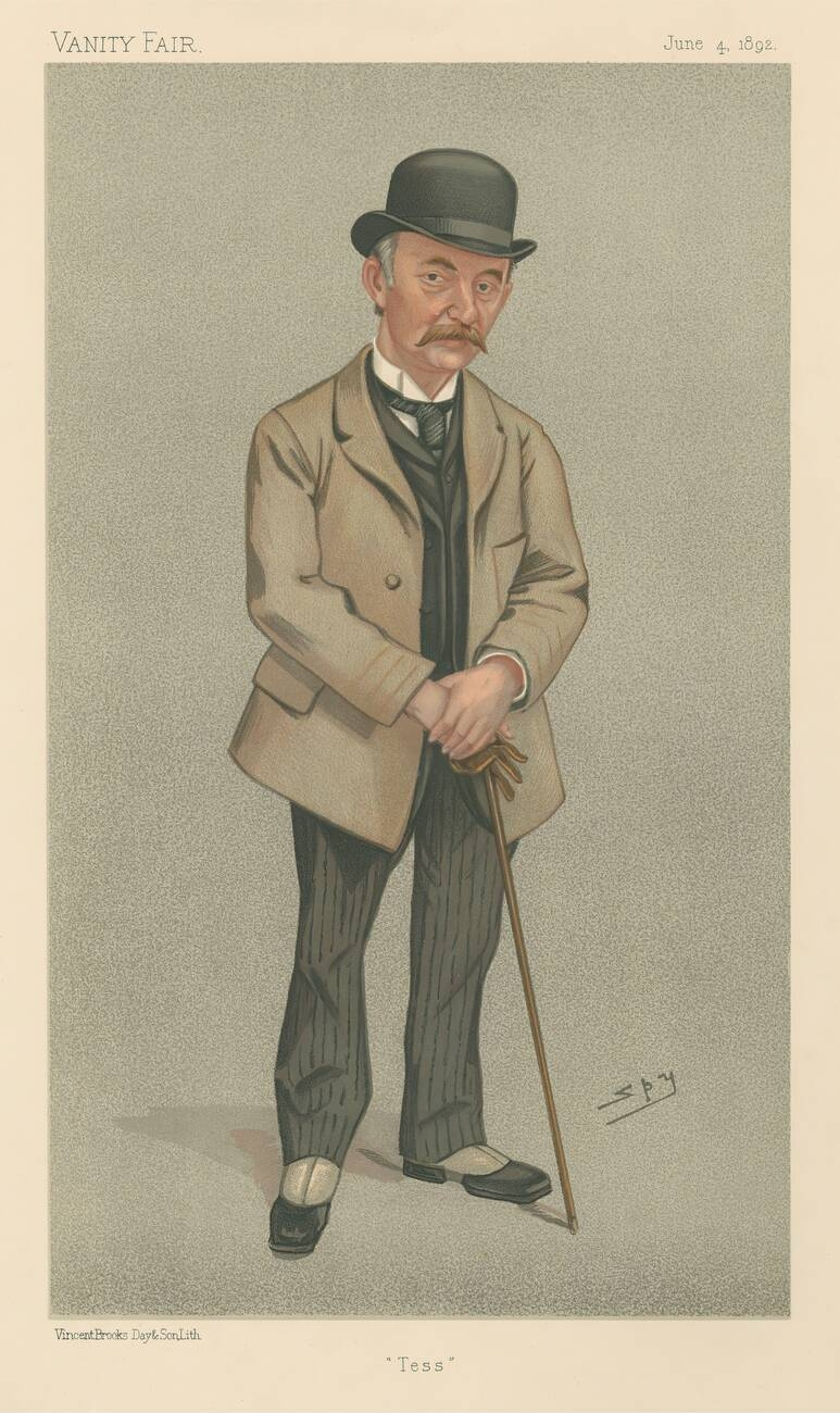 Caricature of Mr T Hardy. Caption read "Tess".